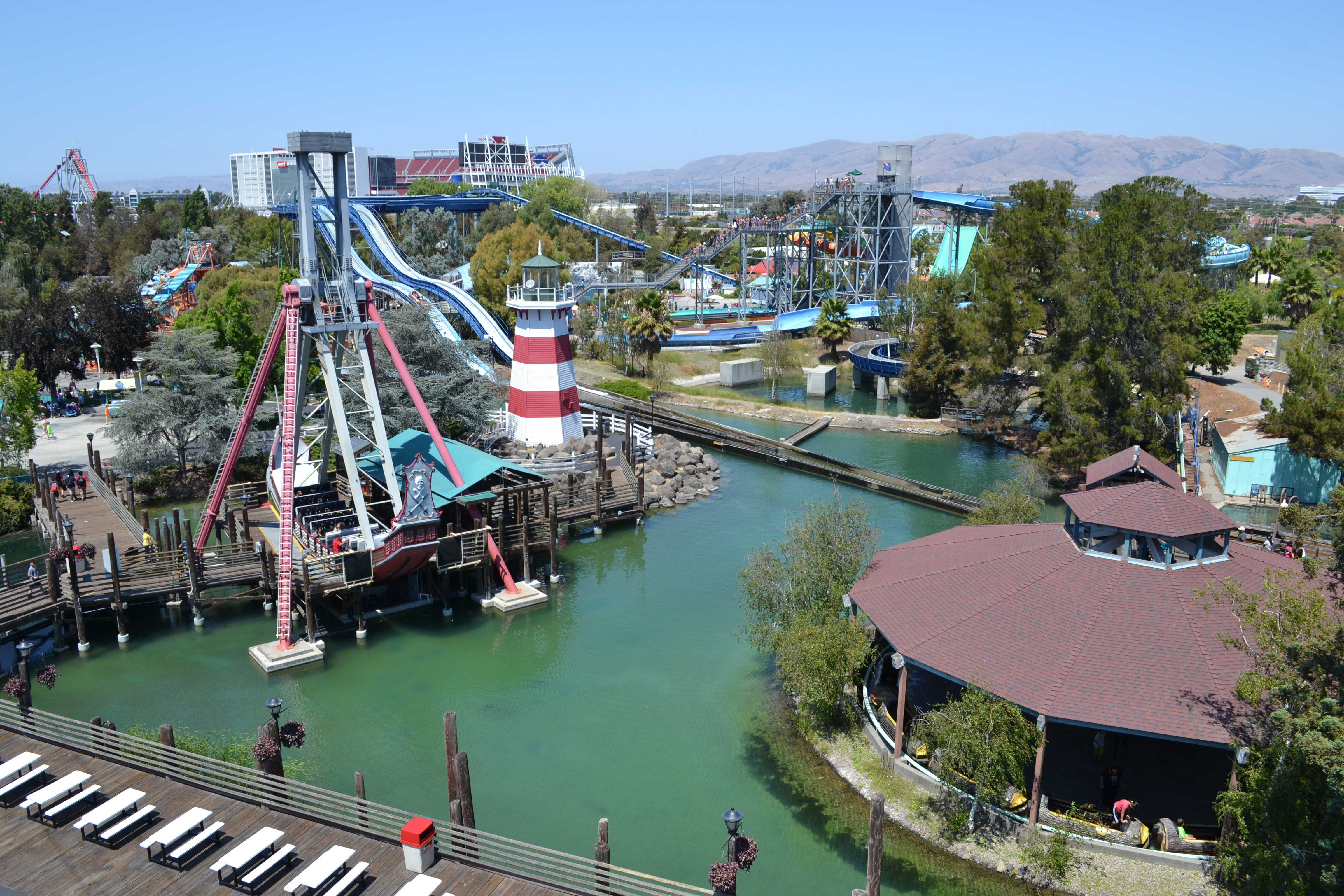 Aerial view of California's Great America